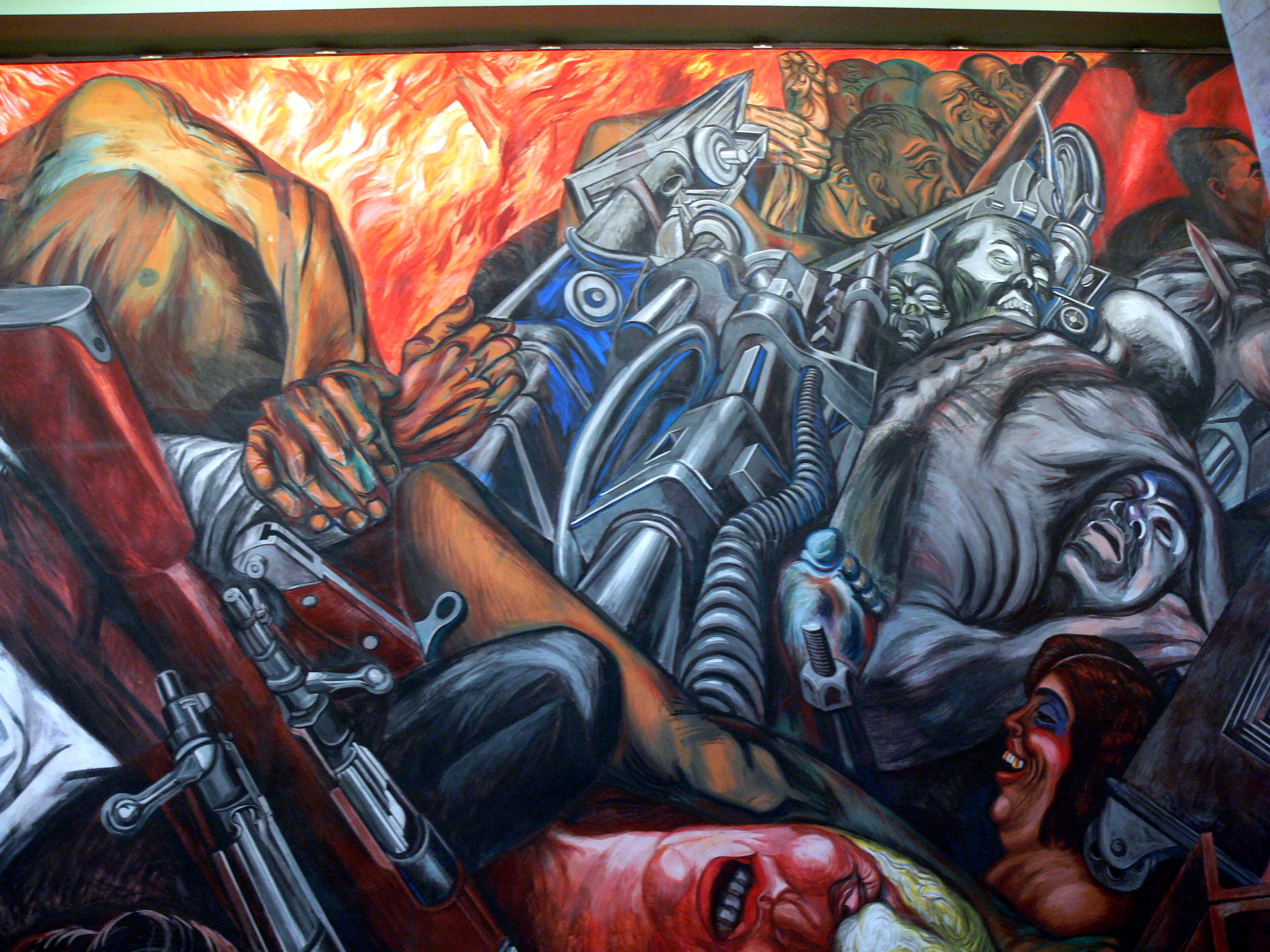 Mexico City. Palacio de Bellas Artes: Mural "Catarsis" ( 1934 ) by Jose Clemente Orozco ( Detail )